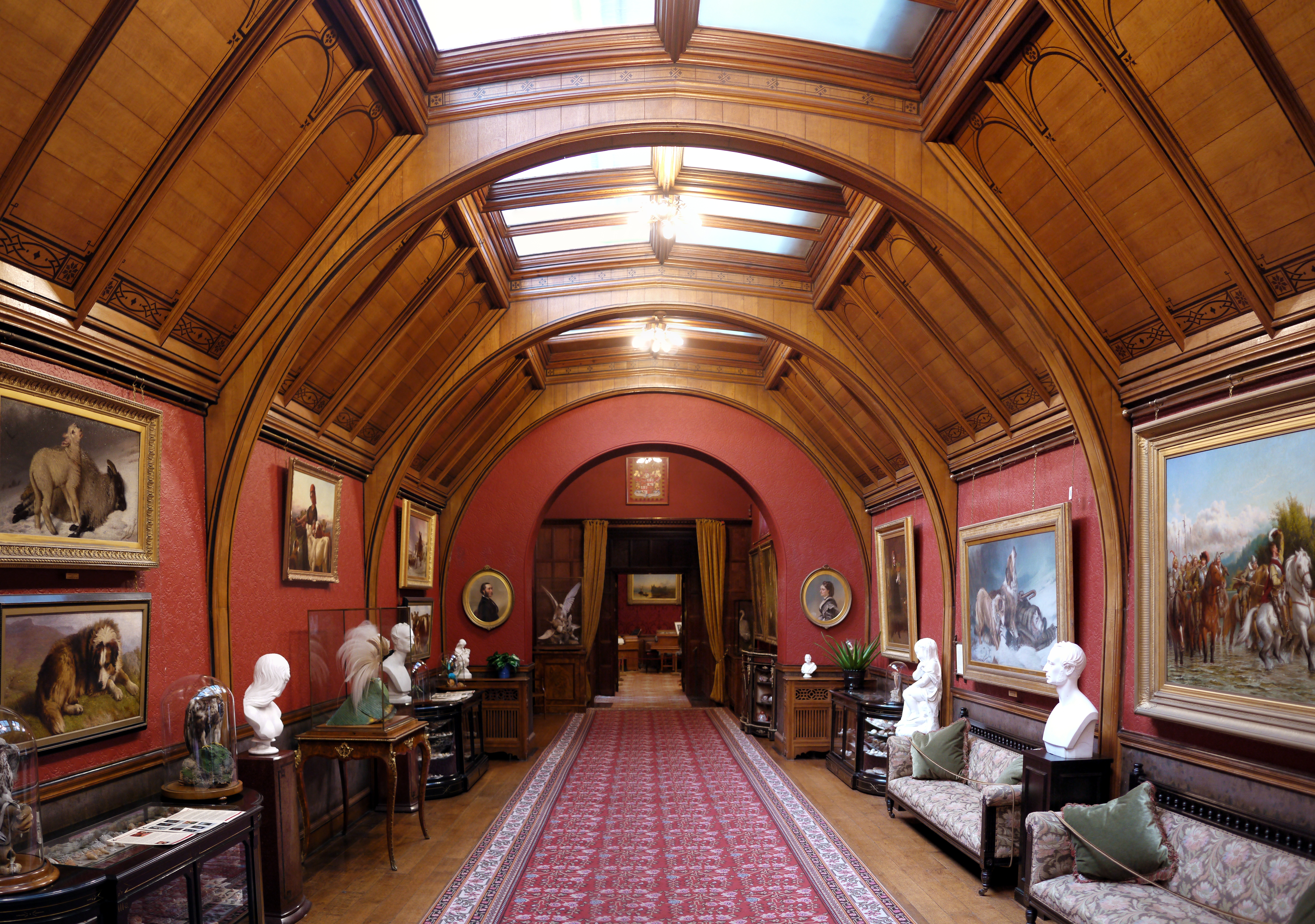 Cragside house top floor corridor